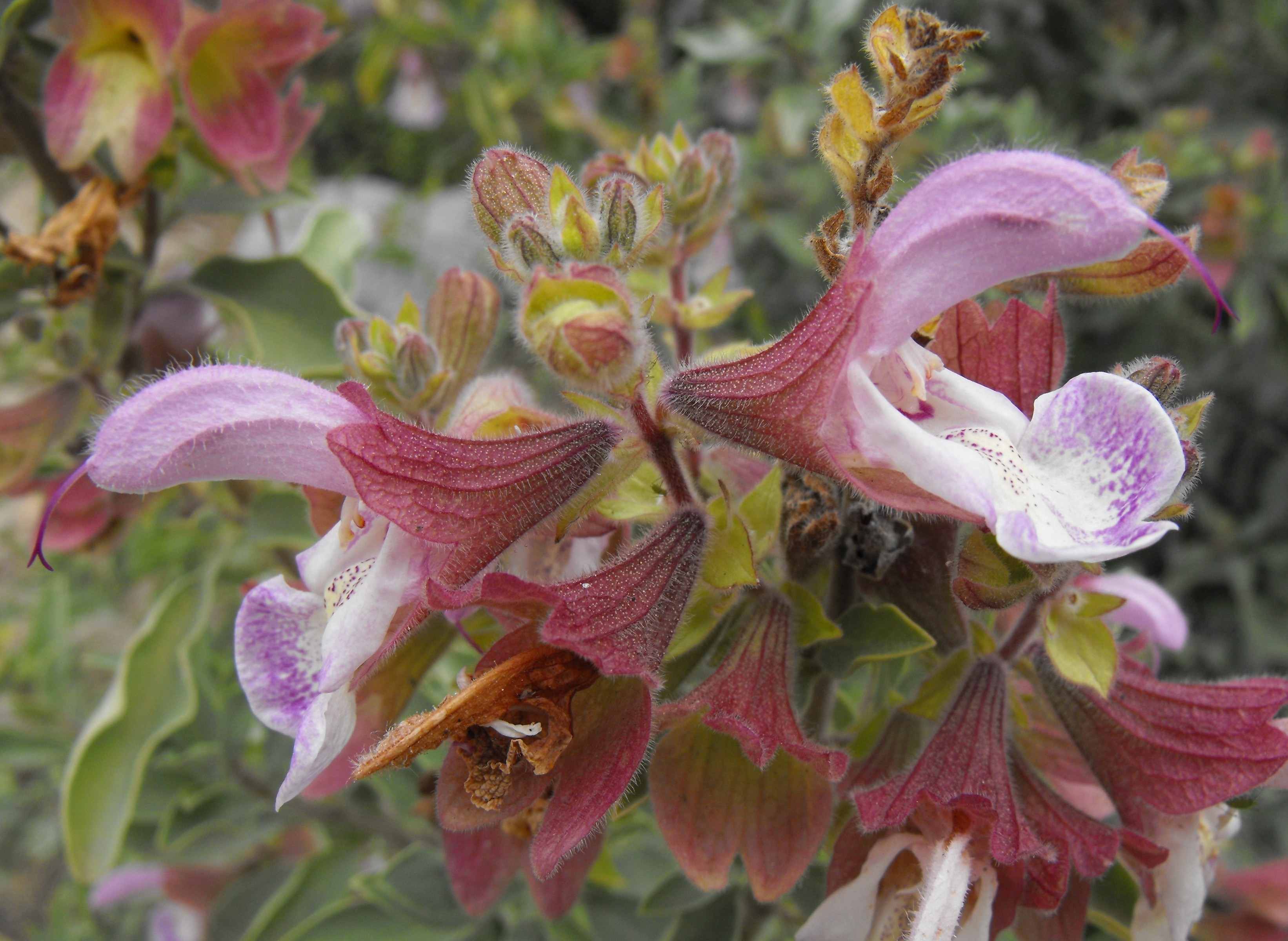 Salvia dolomitica at Quail Botanical Gardens in Encinitas, California, USA. Identified by sign.